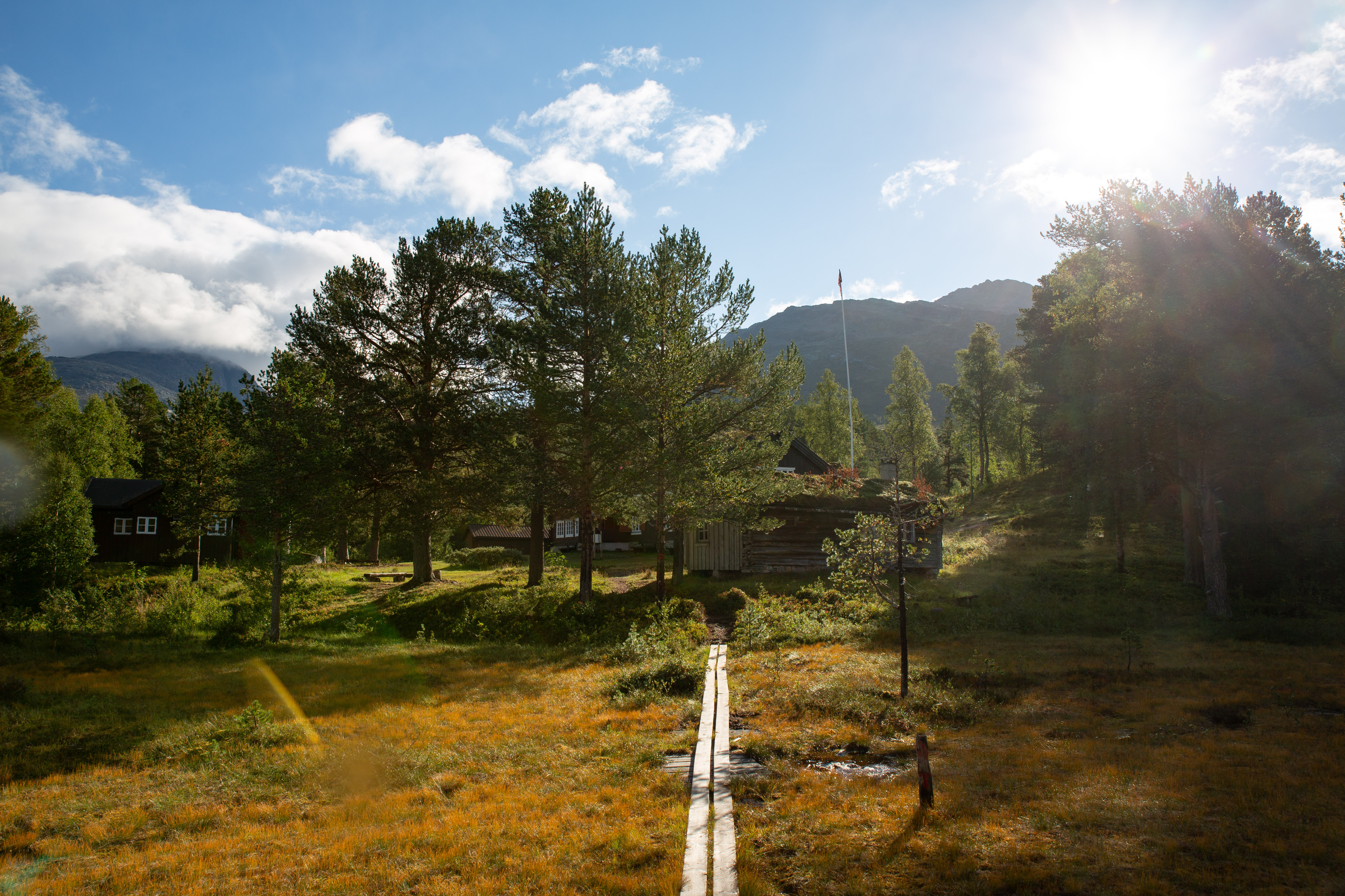 Trollheimshytta belonging to Trondheim Turistforening in Trollheimen in summer